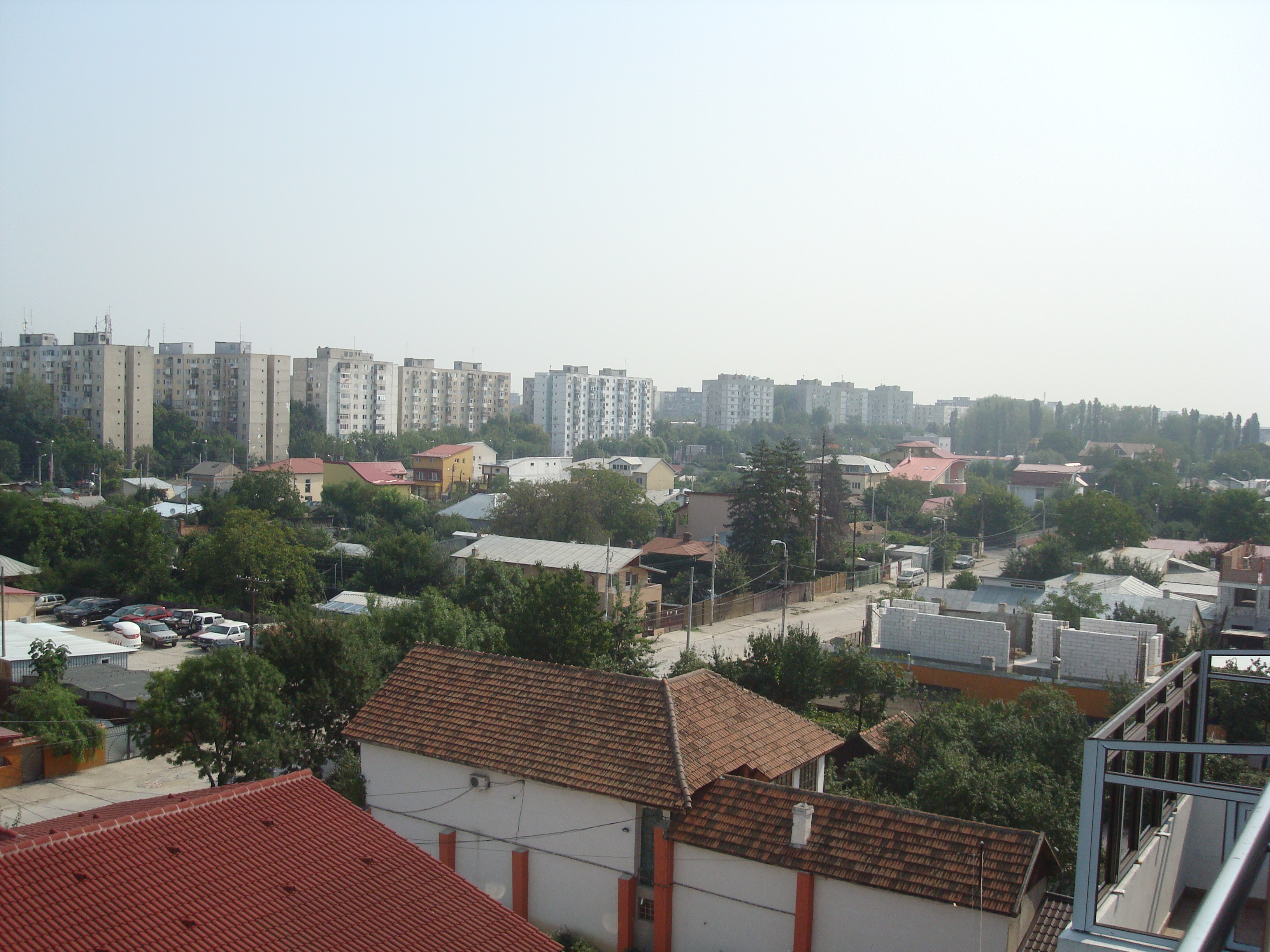 Progesul in 2010.